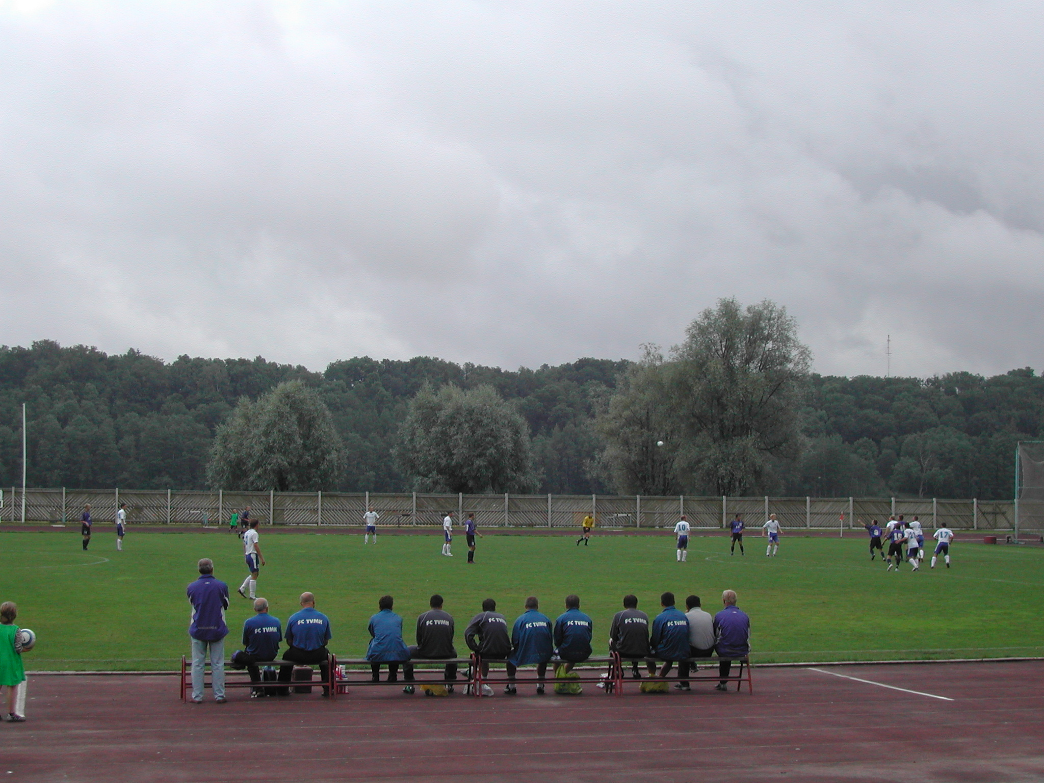 Viljandi Linnastaadion. The picture is taken during the Meistriliiga match of Tulevik Viljandi vs. FC TVMK Tallinn. In front is the bench of FC TVMK.